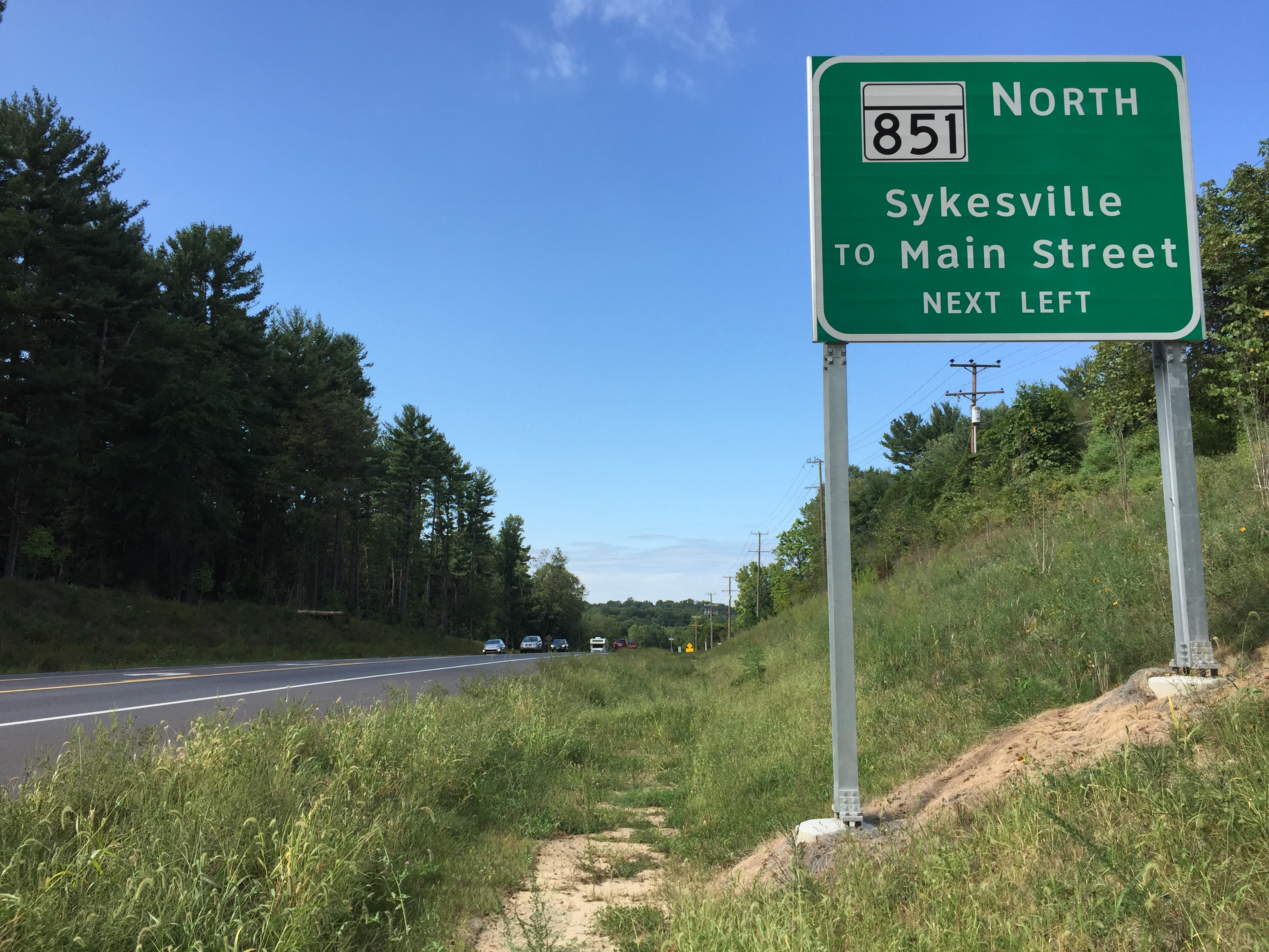 View north along Maryland State Route 32 (Sykesville Road) just south of Maryland State Route 851 (Friendship Road) in northern Howard County, Maryland